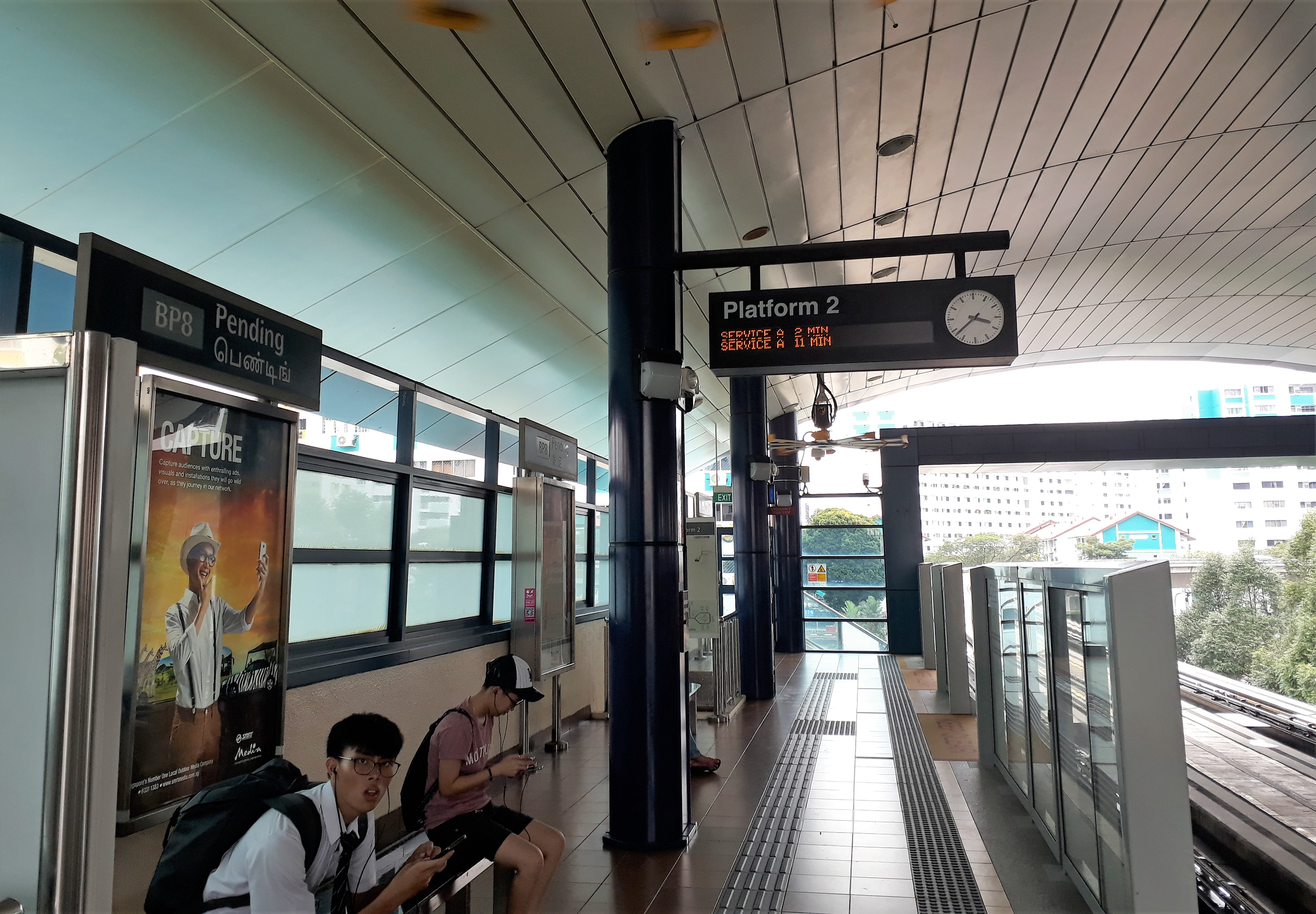 Pending LRT